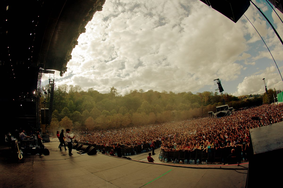 Live in Rock en Seine